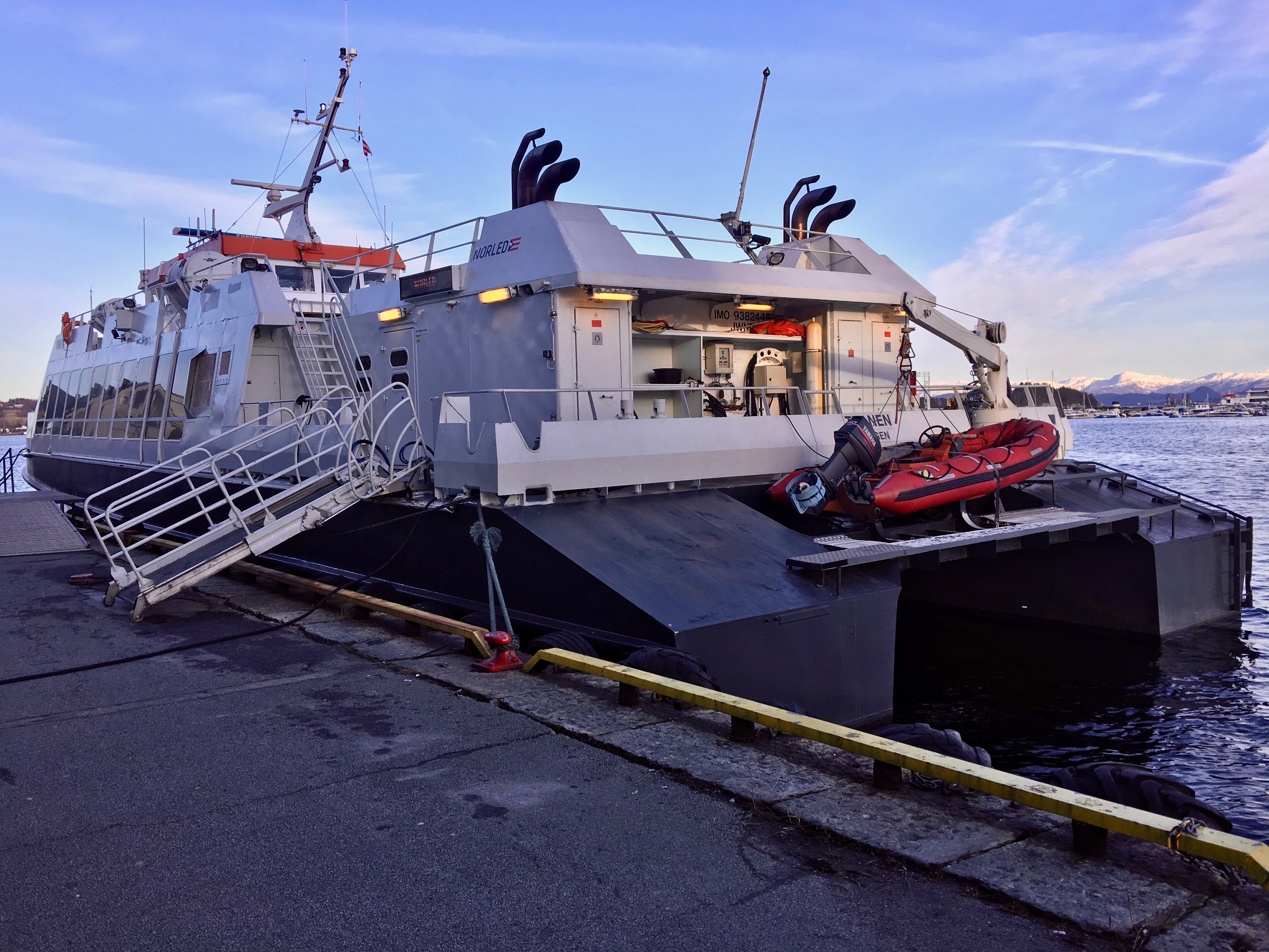 MS «Tranen» (ship, 2006), a catamaran ferry sailing for Nordled, at Nattrutekaien in Stord harbour in Leirvik town on Stord Island, Norway. Photo saturday evening 2018-03-10.